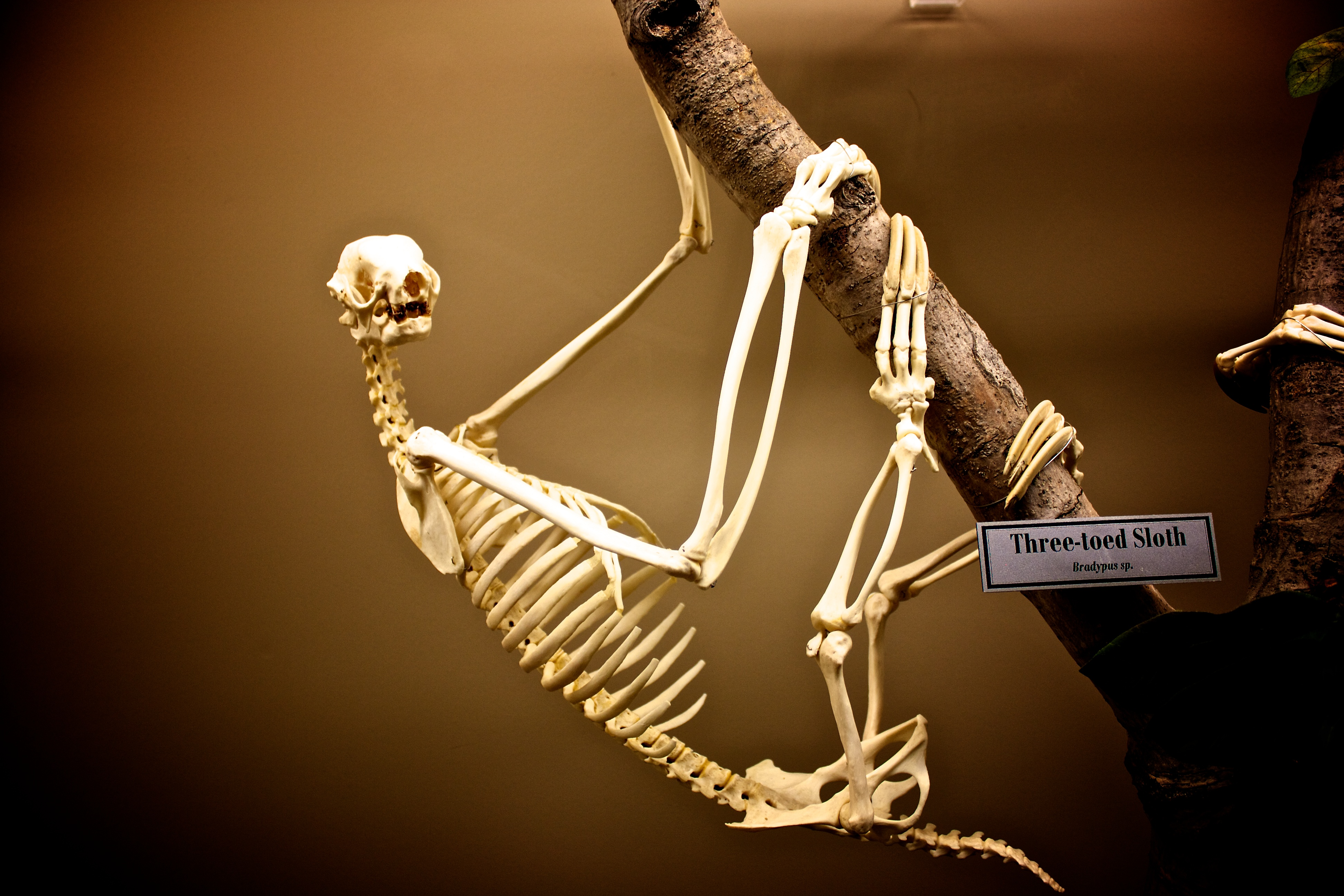 Skeleton of a Bradypus at the Osteology Museum of Oklahoma